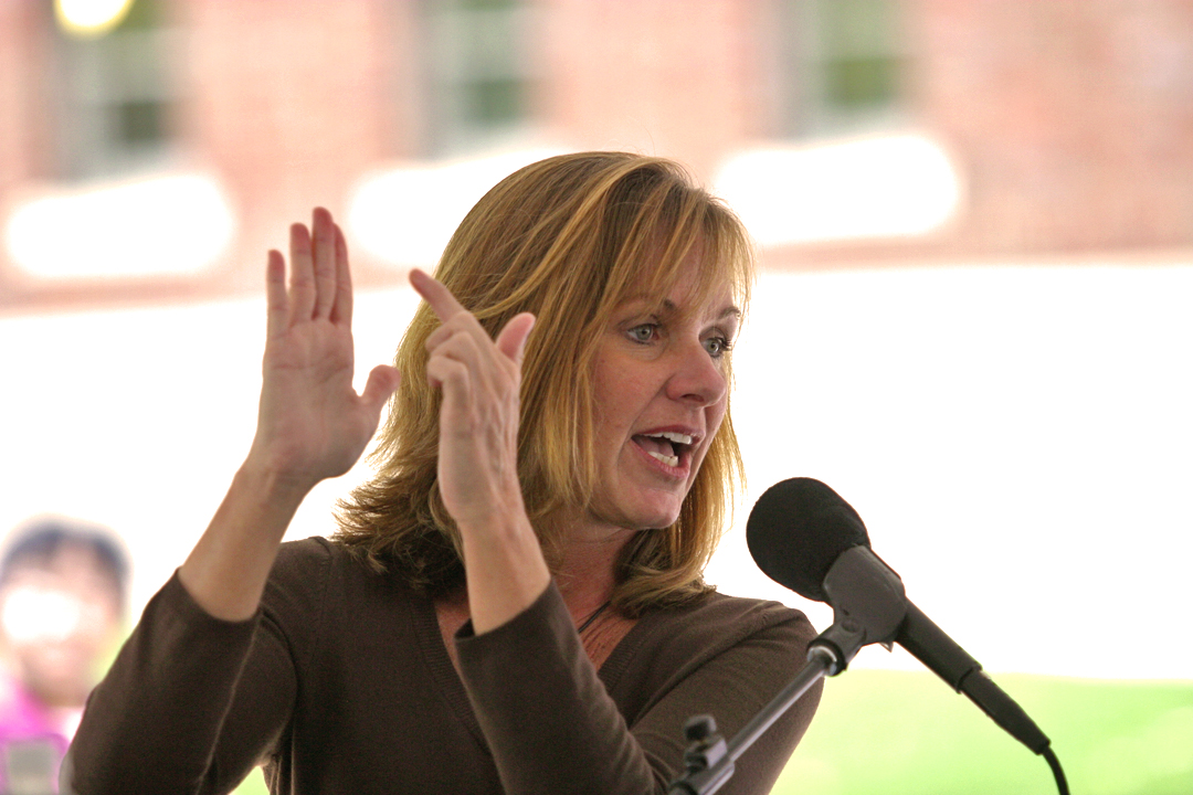 Deb Caletti, speaking to an audience of readers in Ann Arbor.